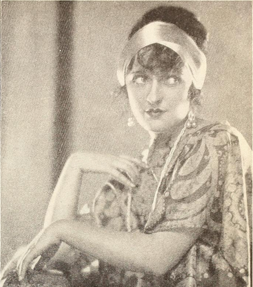 Carmel Myers, from a 1923 publication. Photo by Nickolas Muray.